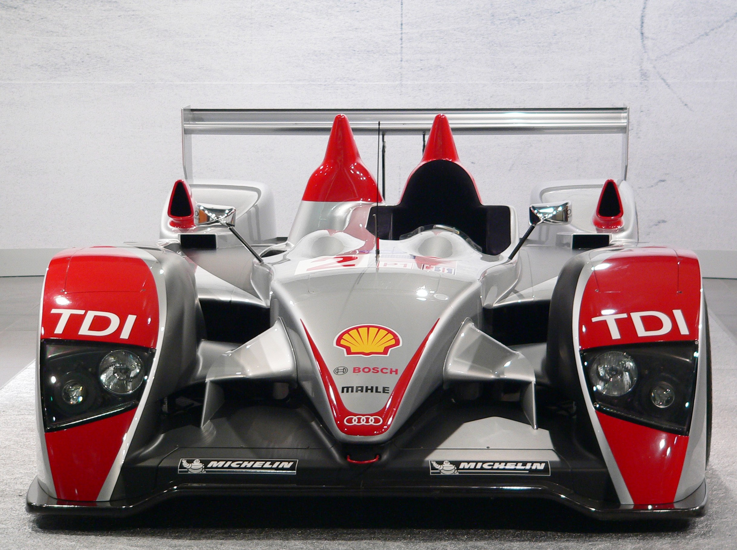 "Audi R10 TDI" (front view) at the Exhibition of historical vehicles in the Audi-Forum of the Audi AG in the City Neckarsulm/Germany